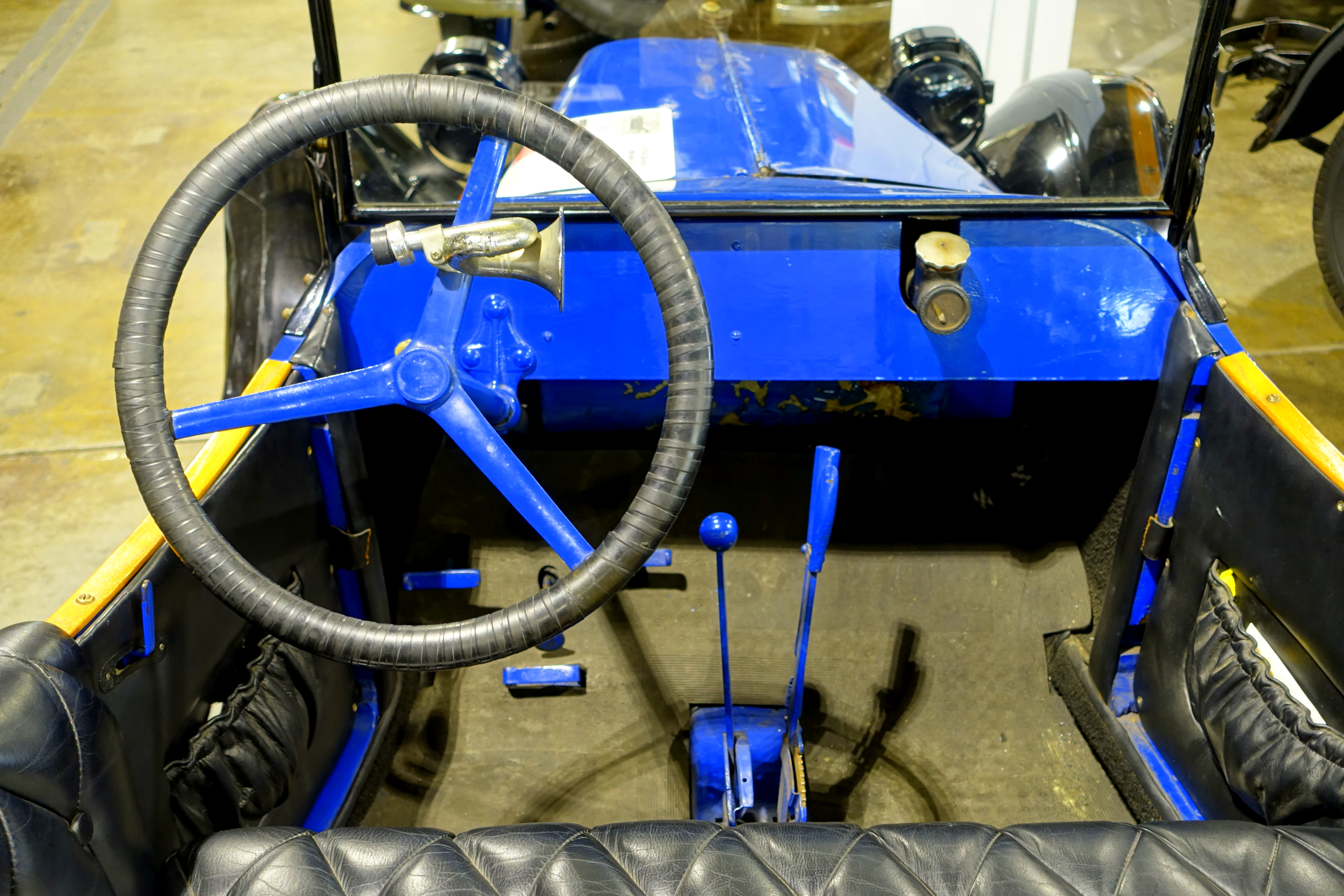 Exhibit in the Automobile Driving Museum - El Segundo, California, USA.